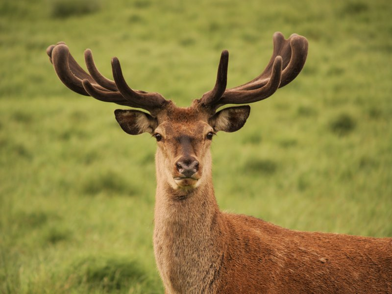 A male red deer (Cervus elaphus) in Munich, Bavaria, Germany.proud animal